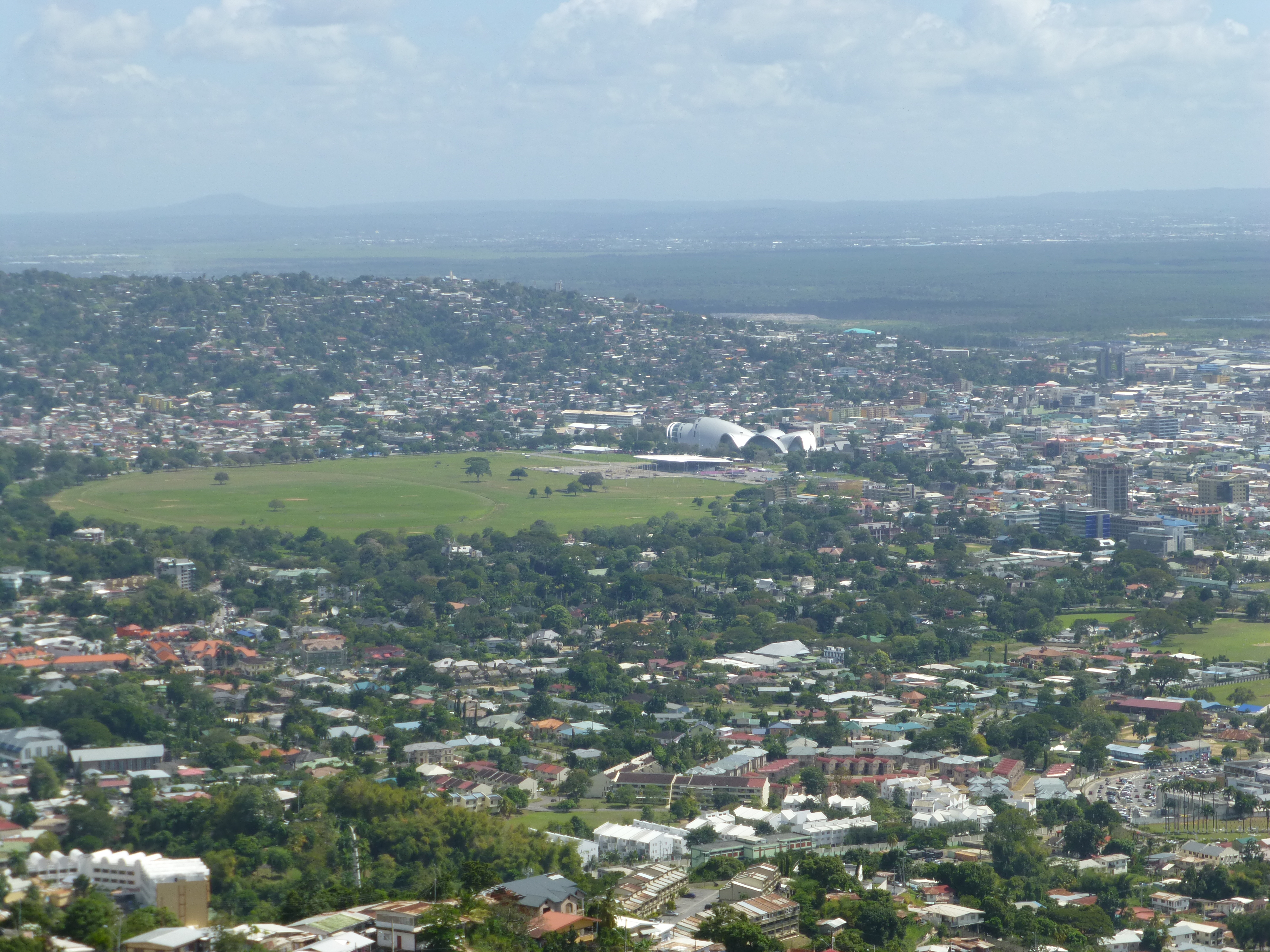 Middle: Queen's Park Savannah. Front: St. Clair and St. James. Behind QPS: Belmont and Laventille. Right of QPS: Uptown.